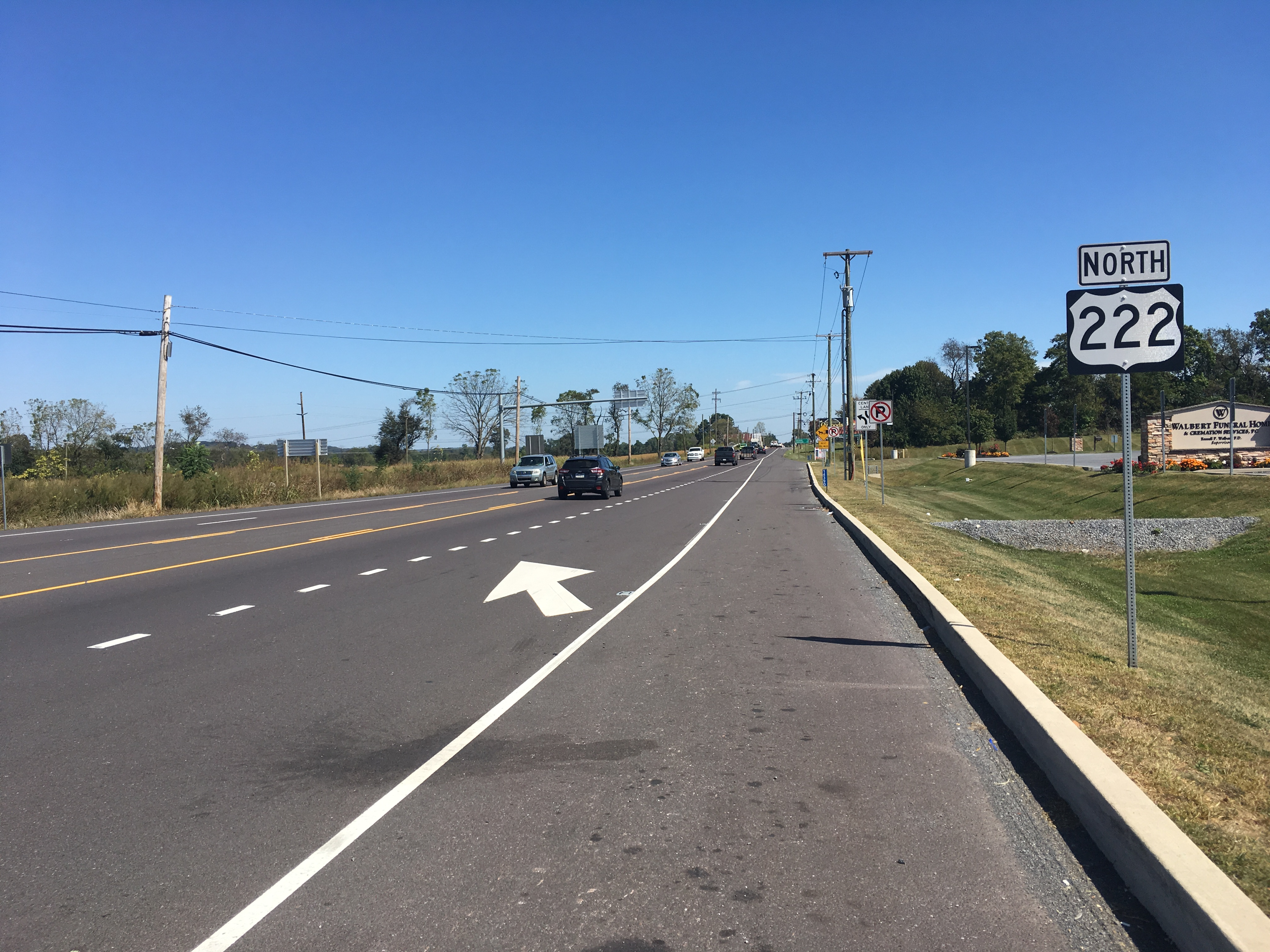 Northbound U.S. Route 222 (Kutztown Road) past the roundabout with Pennsylvania Route 662 (Moselem Spring Road) in Moselem Springs, Pennsylvania